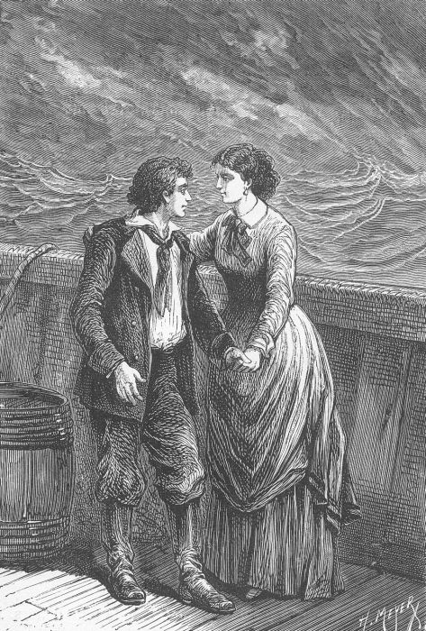 An ilustration from "Dick Sand, A Captain at Fifteen" by Jules Verne painted by Henri Meyer.